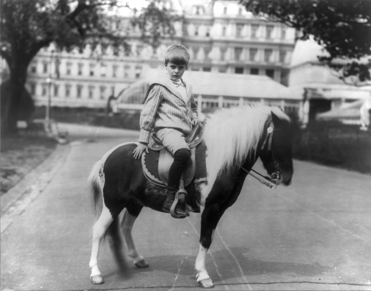 Archie Roosevelt with his pony, Algonquin on the White House Lawn in 1902. Source US Library of Congress. URL is